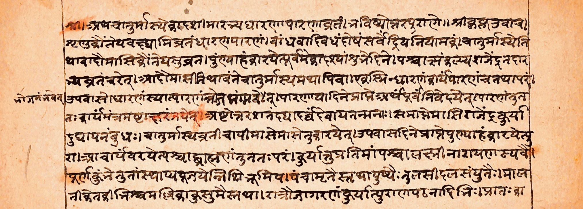 This is a page from the Bhavisya Purana manuscript. Language: Sanskrit Script: Devenagari Author : Maharishi Vedvyas This manuscript was acquired in the 19th-century, and was produced in or before the acquisition. The photo above is of a 2D artwork from the text that was itself authored more than 500 years ago by Maharishi Vedvyas. Therefore Wikimedia Commons PD-Art licensing guidelines apply. Any rights I have as a photographer is herewith donated to wikimedia commons under CC 4.0 license.